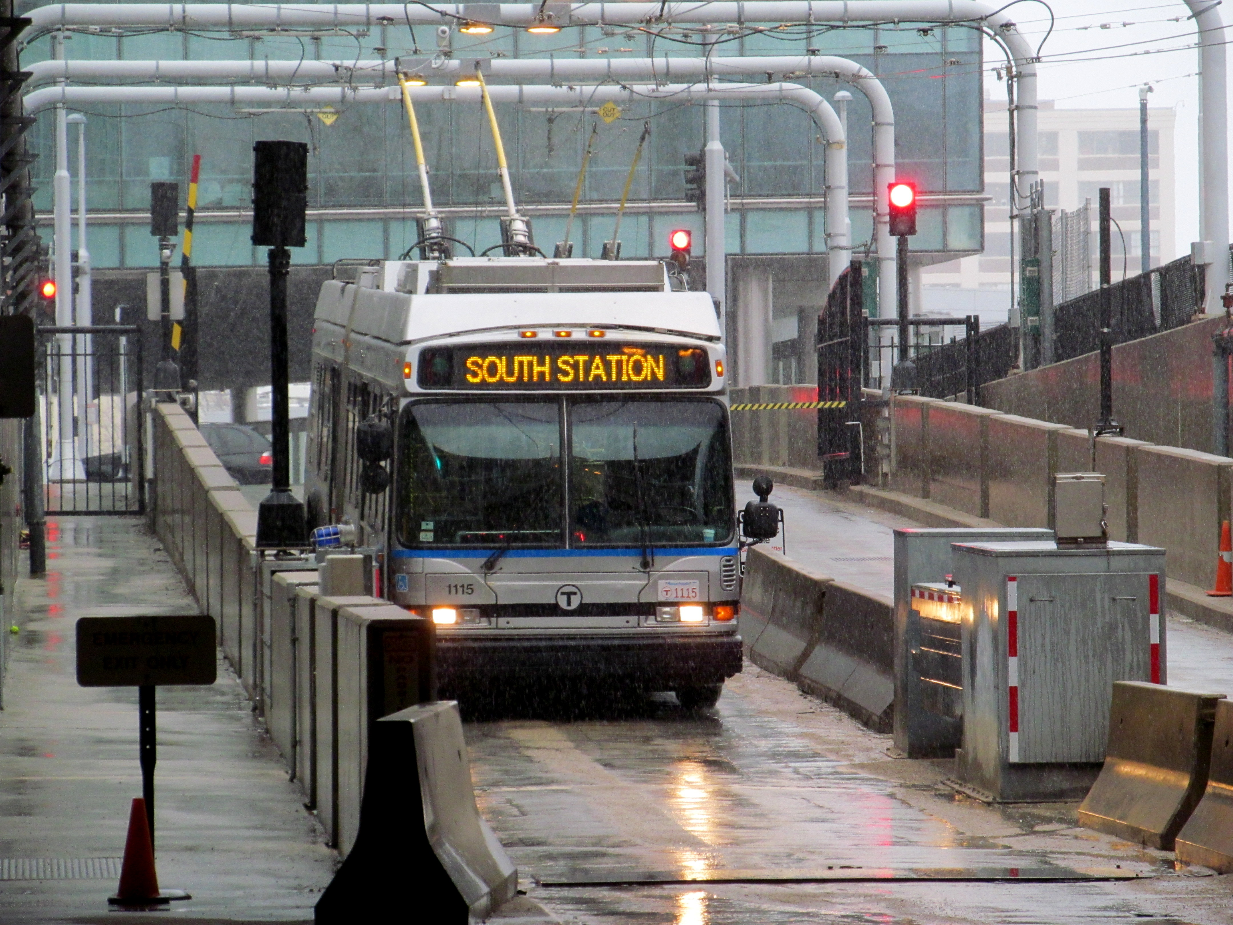 Silver Line bus on a Waterfront short turn approaching World Trade Center station in March 2017